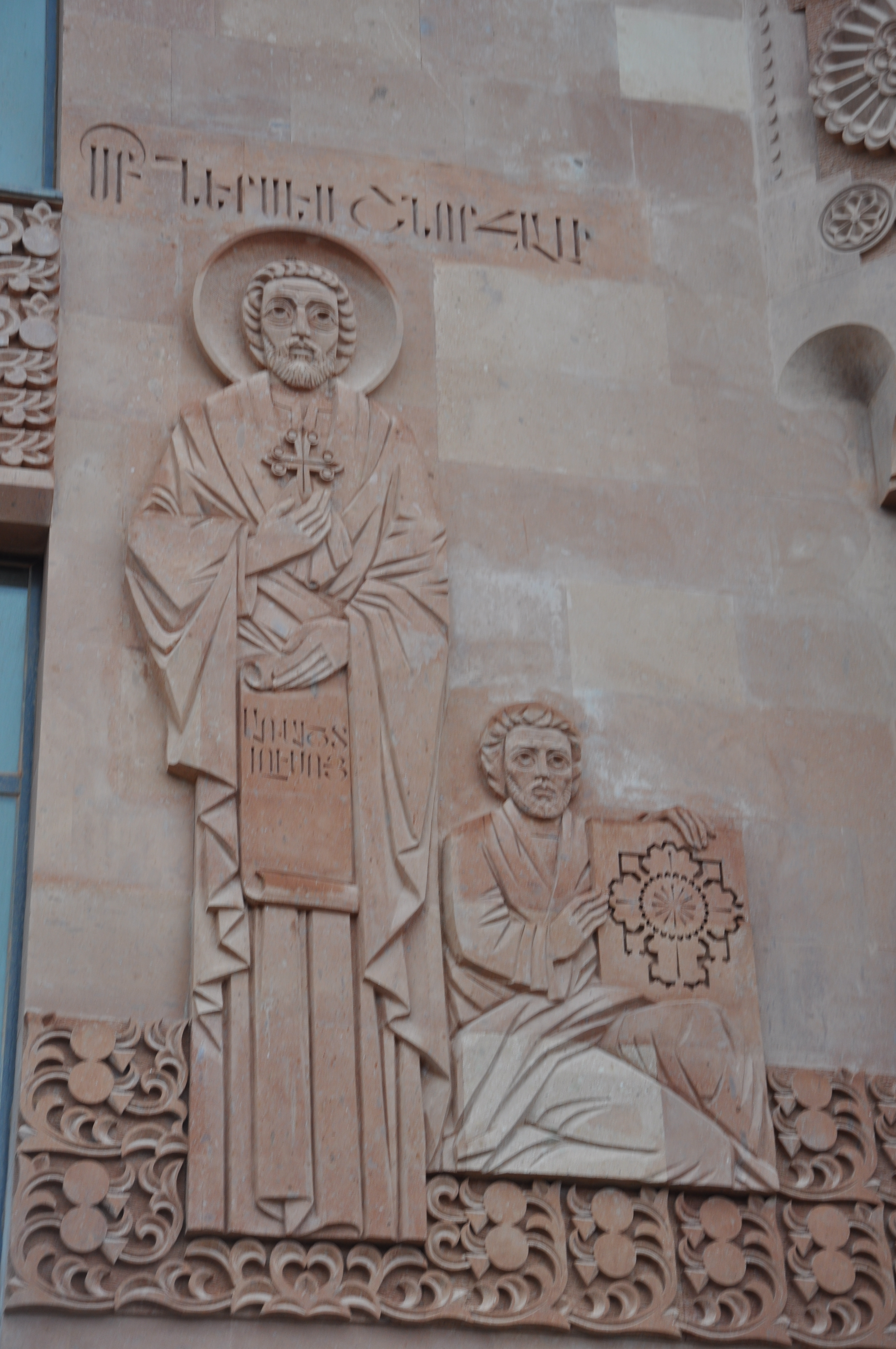 Holy Transfiguration Cathedral of Armenian Apostolic church in Moscow.